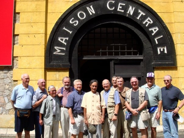 13 POW's in front of Maison Centrale located in Hanoi, Viet nam